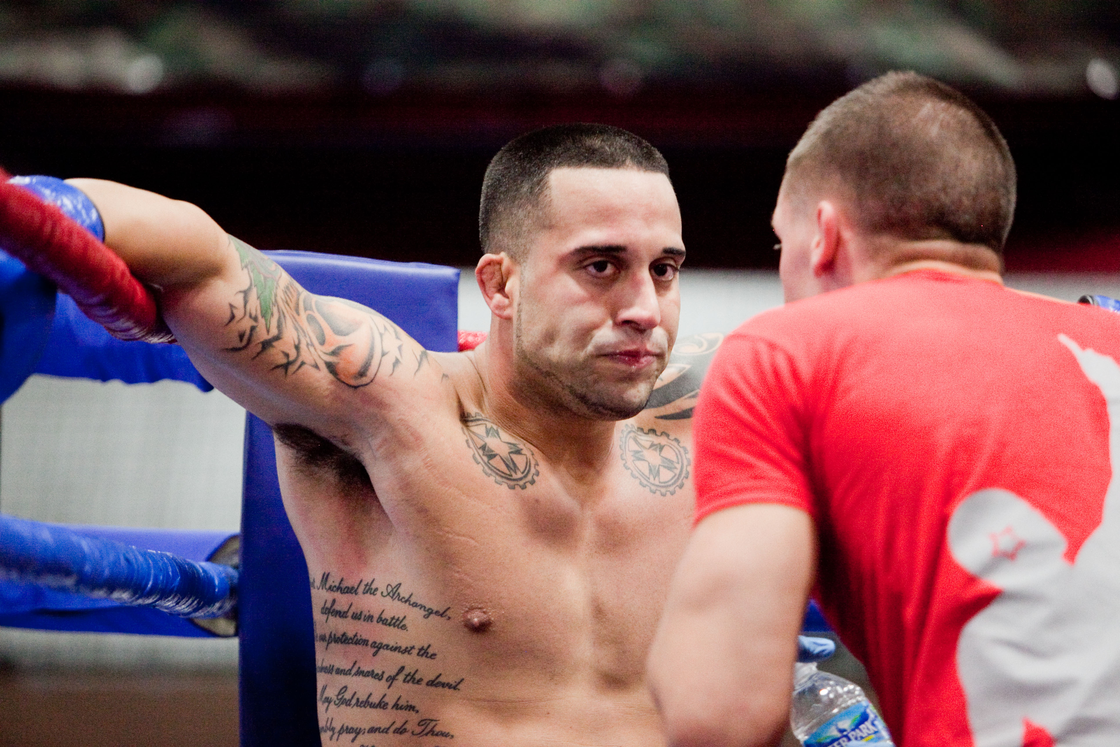 Muay Thai Championship Boxing Match in Sterling, VA - This is the fighter, Anthony Cordero.